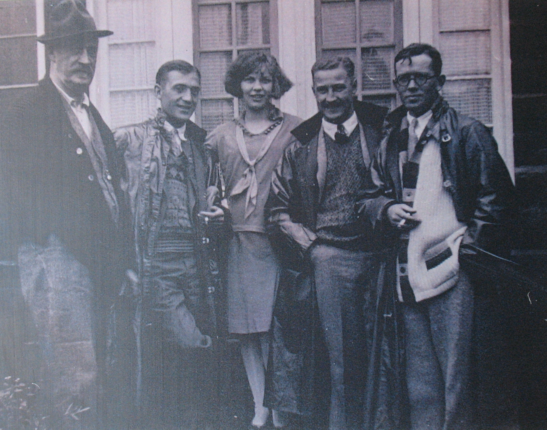 Neil McDougall, owner Nipigon Lodge